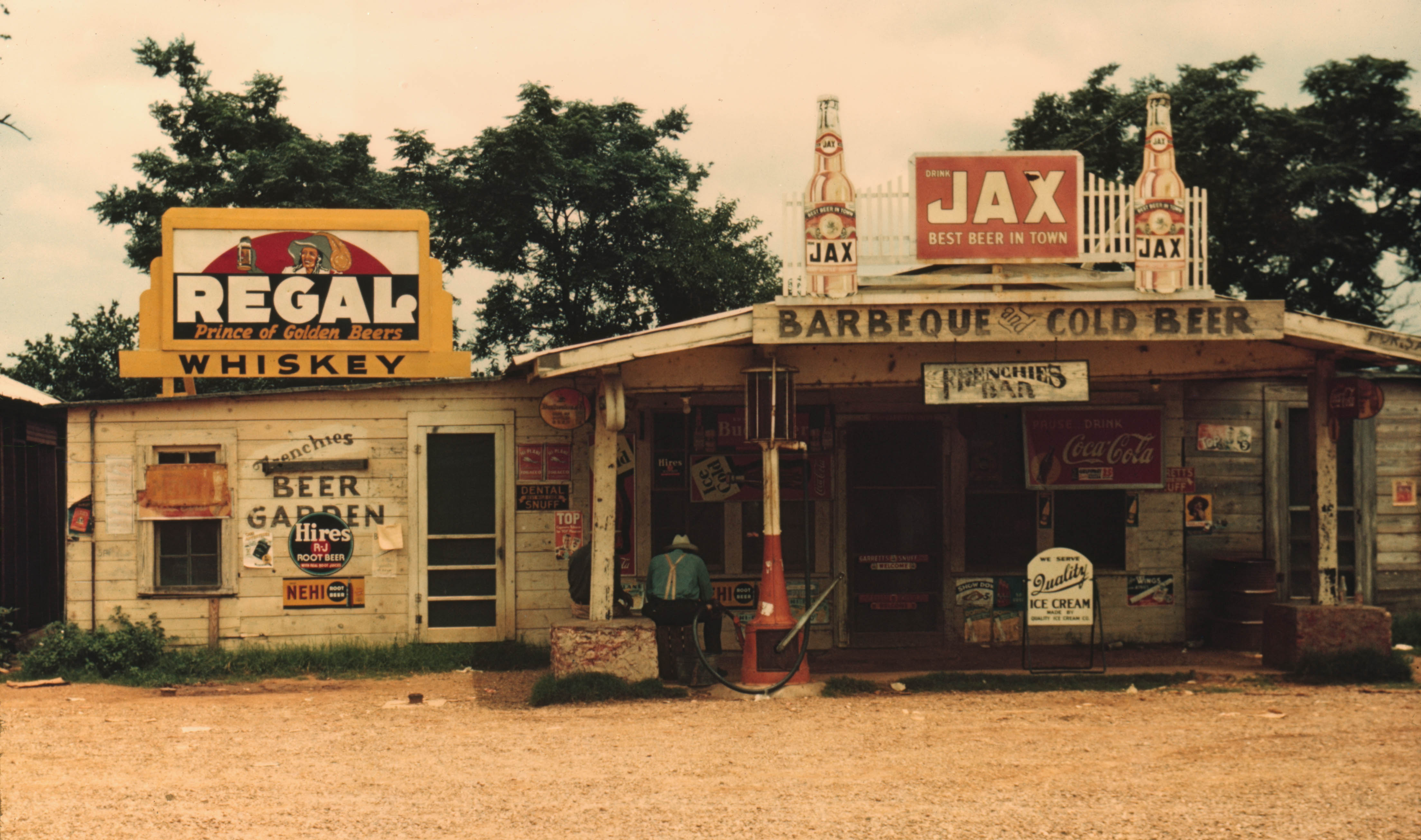 "Frenchie's Bar", a cross roads store, bar, juke joint, and gas station in the cotton plantation area, Melrose, Louisiana.